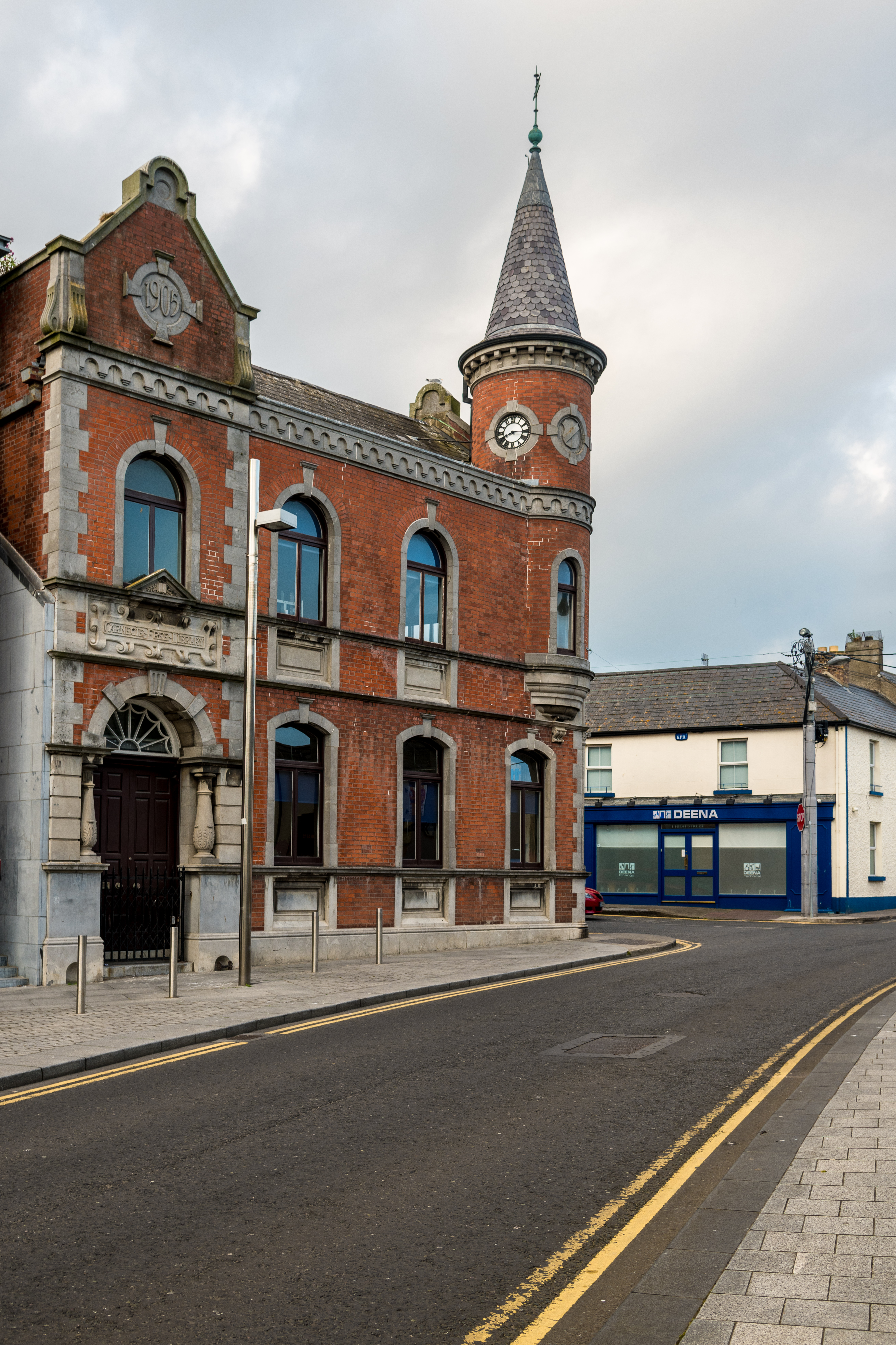 County Dublin, Balbriggan Carnegie Free Library. Wikidata has entry Q55049504 with data related to this item.